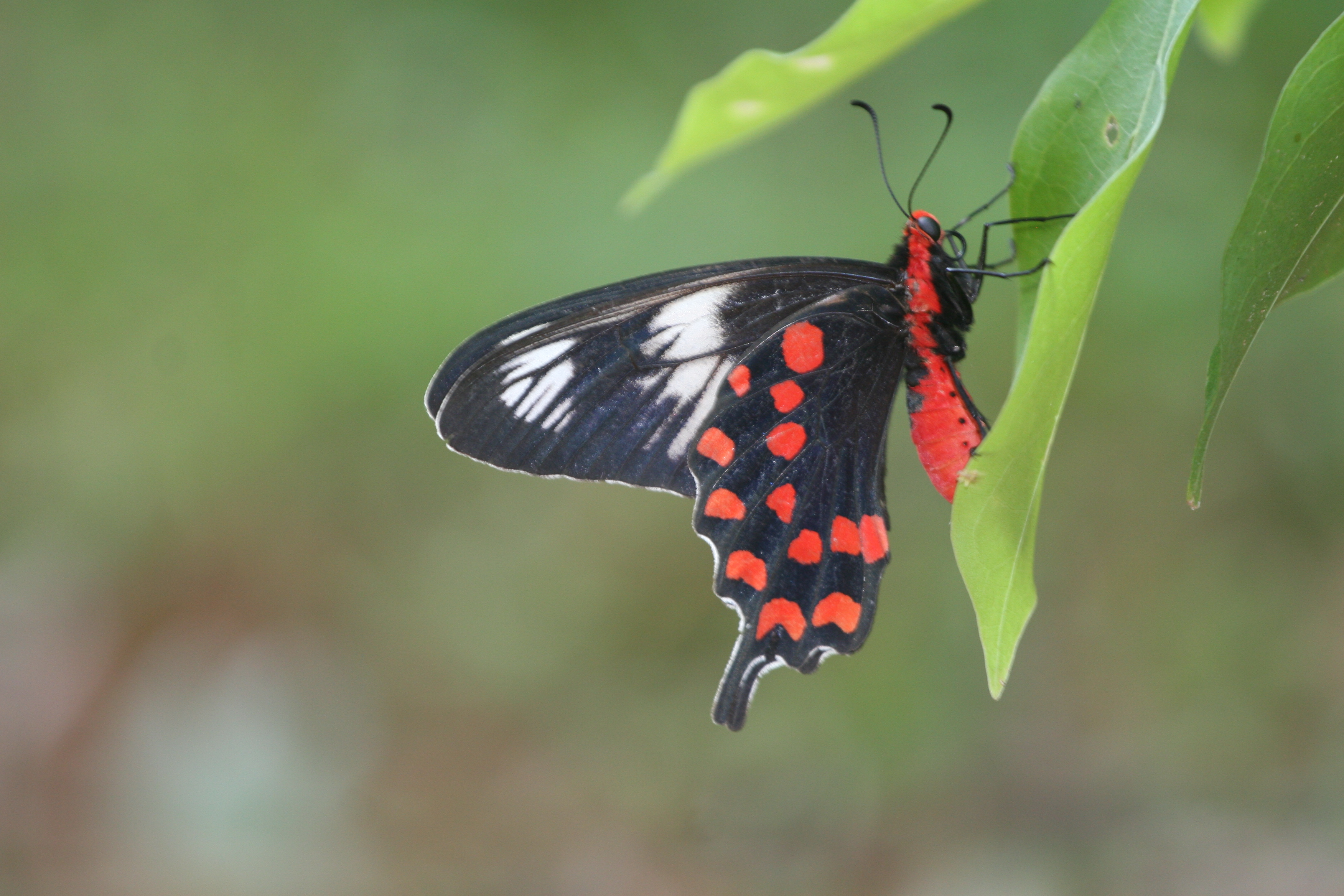 Crimson rose